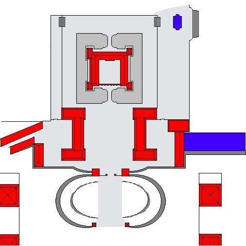 Versailles as it was after the first extensions by Louis XIV. Large stables on the left and rooms for the retinue on the right of the fore-court were added.